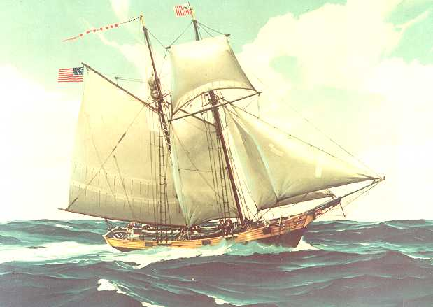 Contemporary painting of a Revenue Marine cutter, which may be of either the Massachusetts (1791), or its replacement, the Massachusetts II. Description from the United States Coast Guard website: "This painting purports to illustrate the first cutter named Massachusetts but it incorrectly shows the cutter flying the Revenue ensign and commission pennant, which were not adopted until 1799, well after the first Massachusetts had left service. Nevertheless, the illustration does show those characteristics typical of most of the first few generations of Revenue cutters: a small sailing vessel steered by a tiller, with low freeboard, light draft, lightly armed, and usually rigged as a topsail schooner." [1]